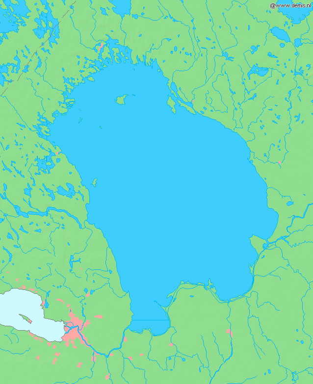 Lake Ladoga, in Russia. Bounding box West 29.4°, South 59.6°, East 33.4°, North 62.0°. Center at 60°48′00″N 31°24′00″E / 60.80000°N 31.40000°E.